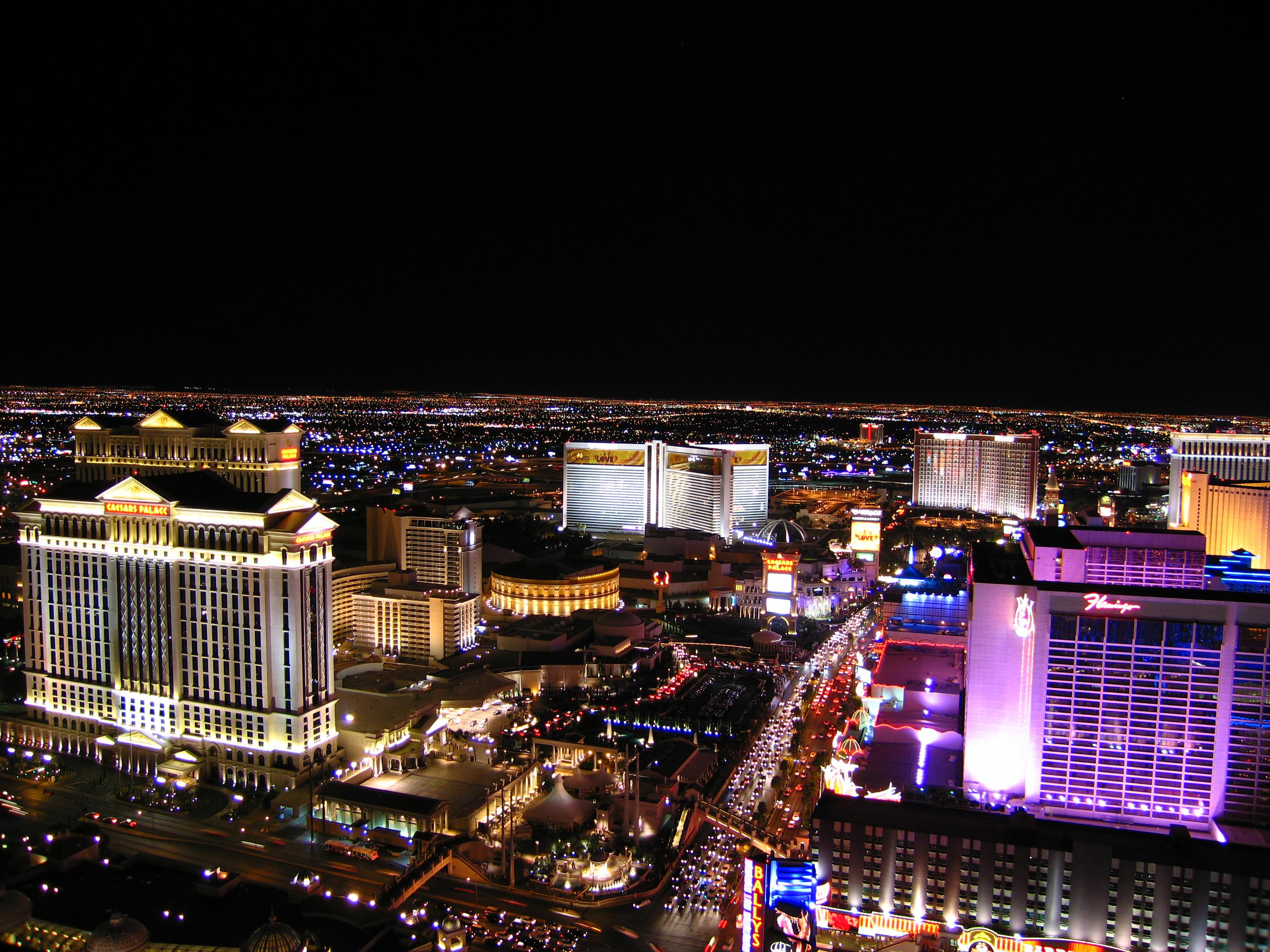 Las Vegas Blvd. (The Strip) in Las Vegas, Nevada - View from the top of the Paris Eiffel Tower Photo by Ricardo630 Ricardo630 04:11, 9 August 2006 (UTC)